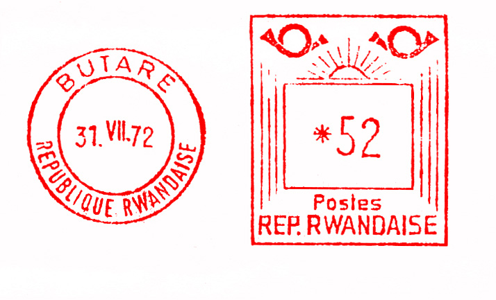 Meter stamp catalog image, Rwanda type 1